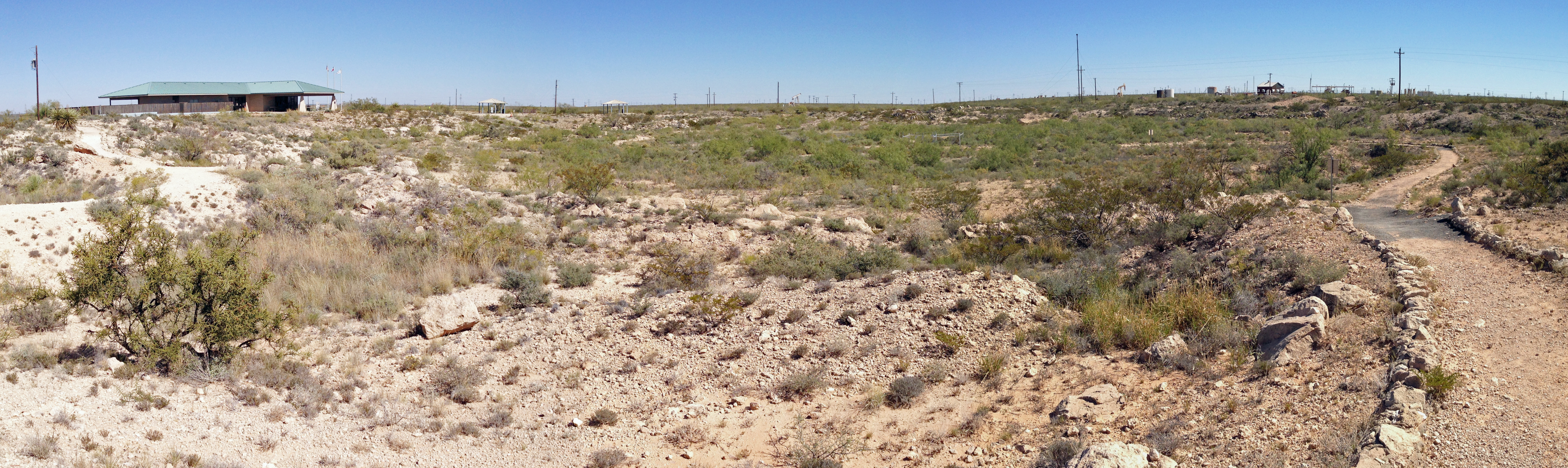 The primary crater at the Odessa Meteor Crater, Texas.